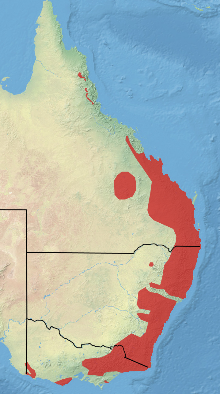 The Distribution of the Yellow-bellied Glider